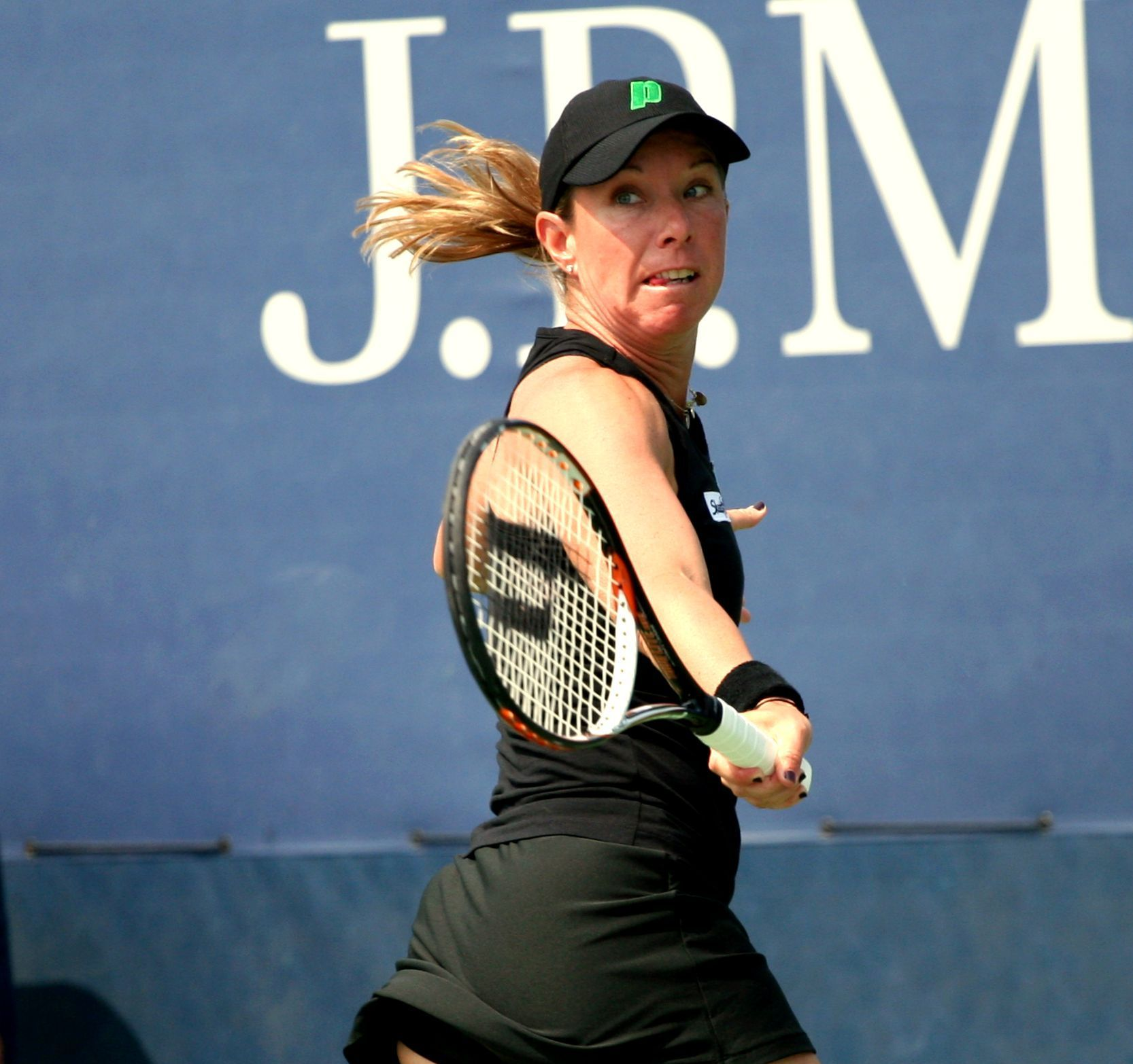 U.S. Open - Saturday, Sept. 3, 2011